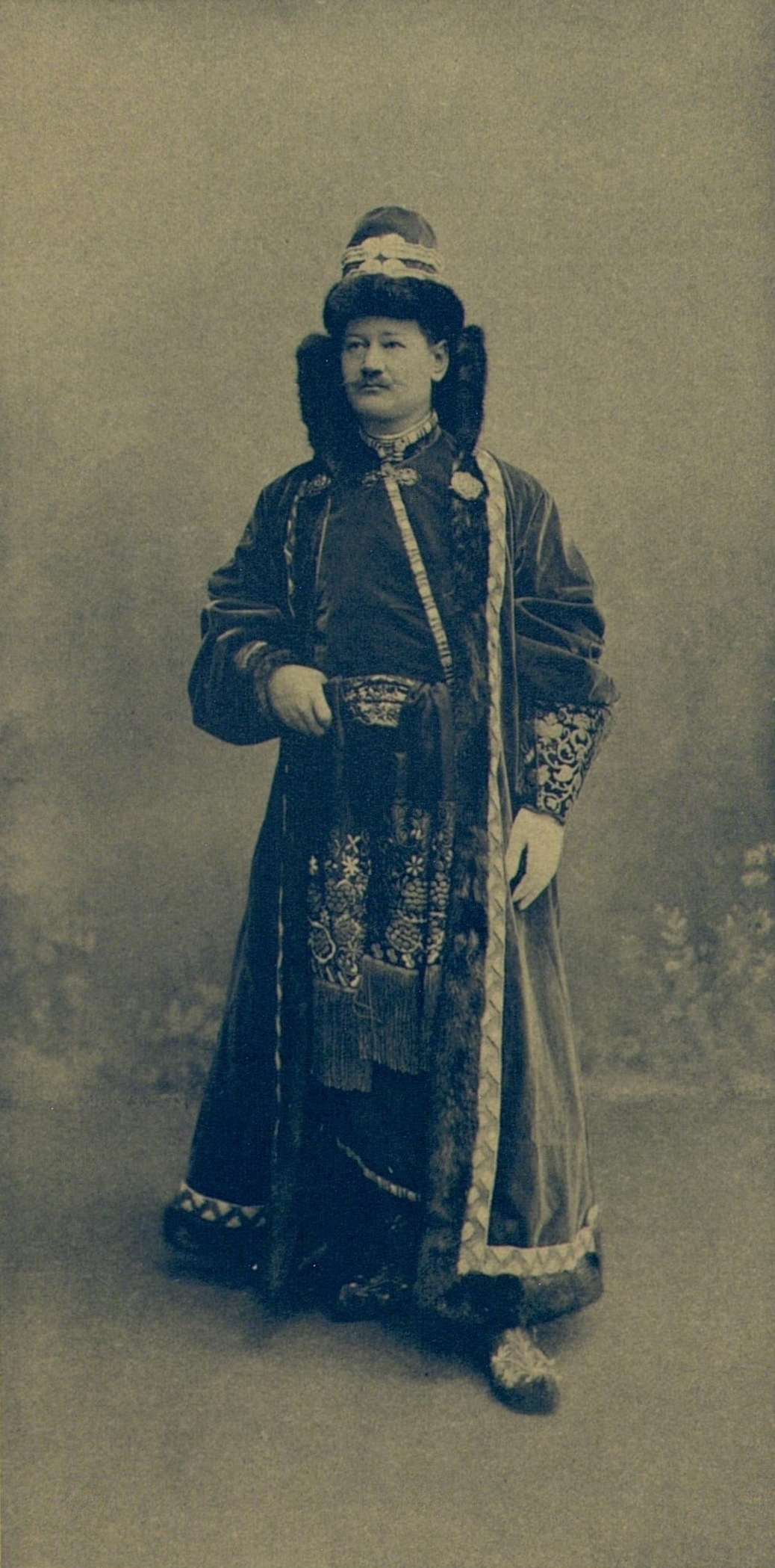 Vladimir Arcadievich Telyakovskiy